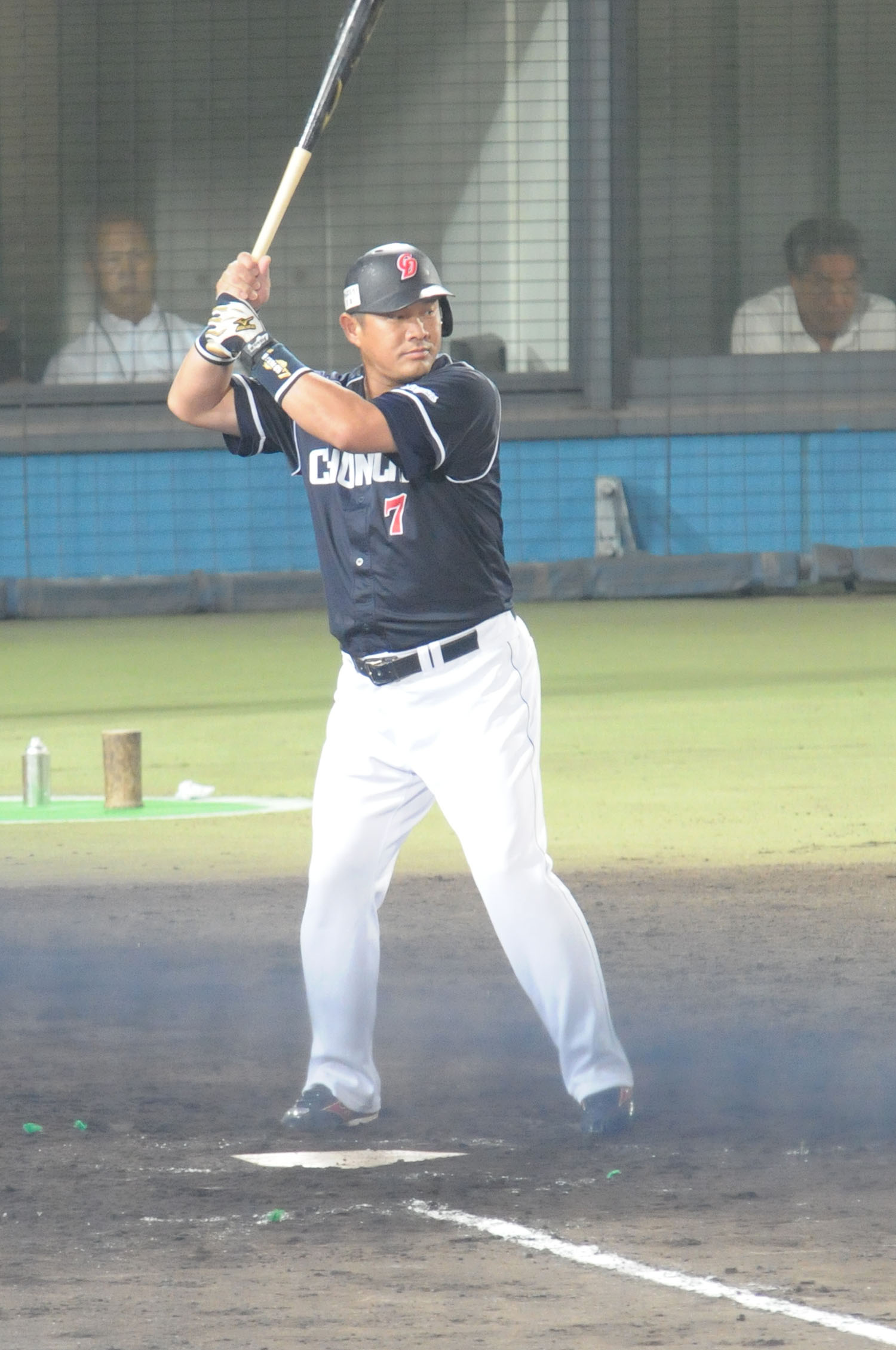 Takeshi Yamasaki, infielder of the Chunichi Dragons, at Akita Prefectural Baseball Stadium.